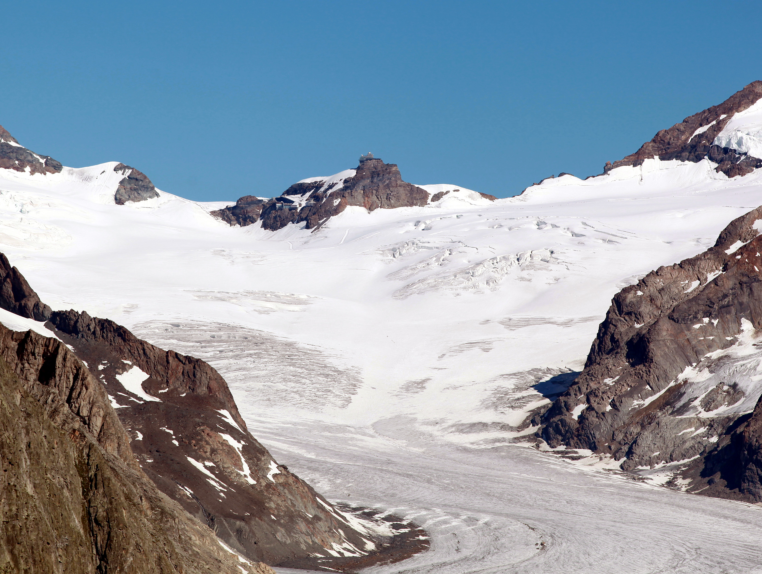 The Jungfraujoch, in the Bernese Alps, seen from Eggishorn